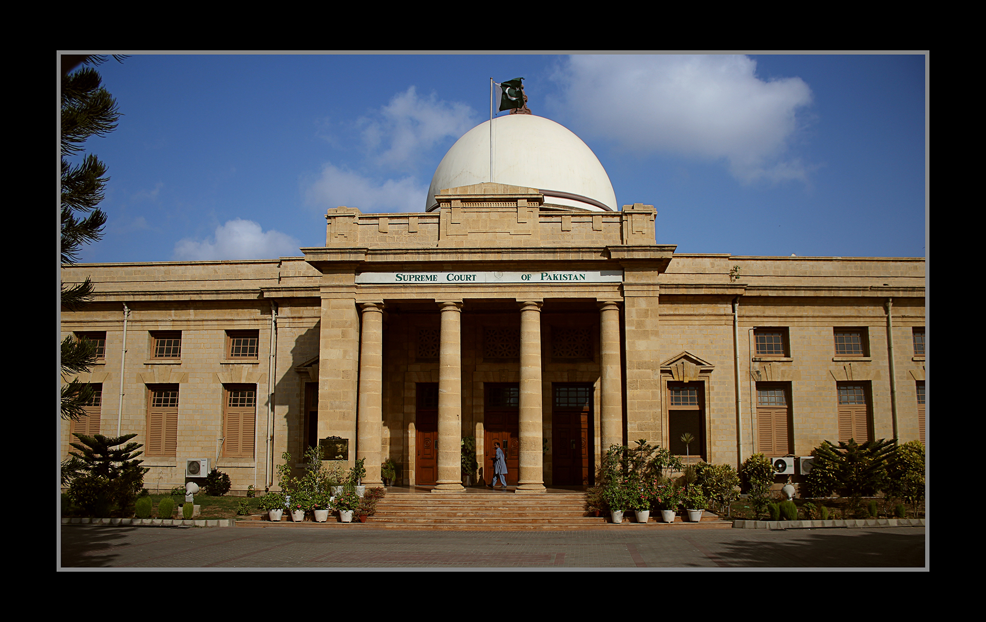 Victoria Museum (now Supreme Court of Pakistan Building) This is a photo of a monument in Pakistan identified as the SD-P-67